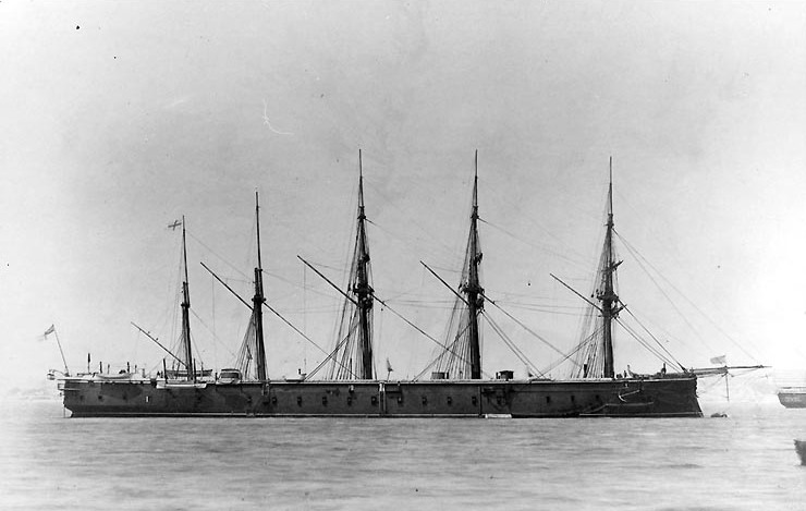 British ironclad HMS Northumberland in her original 5-masted configuration before 1875.